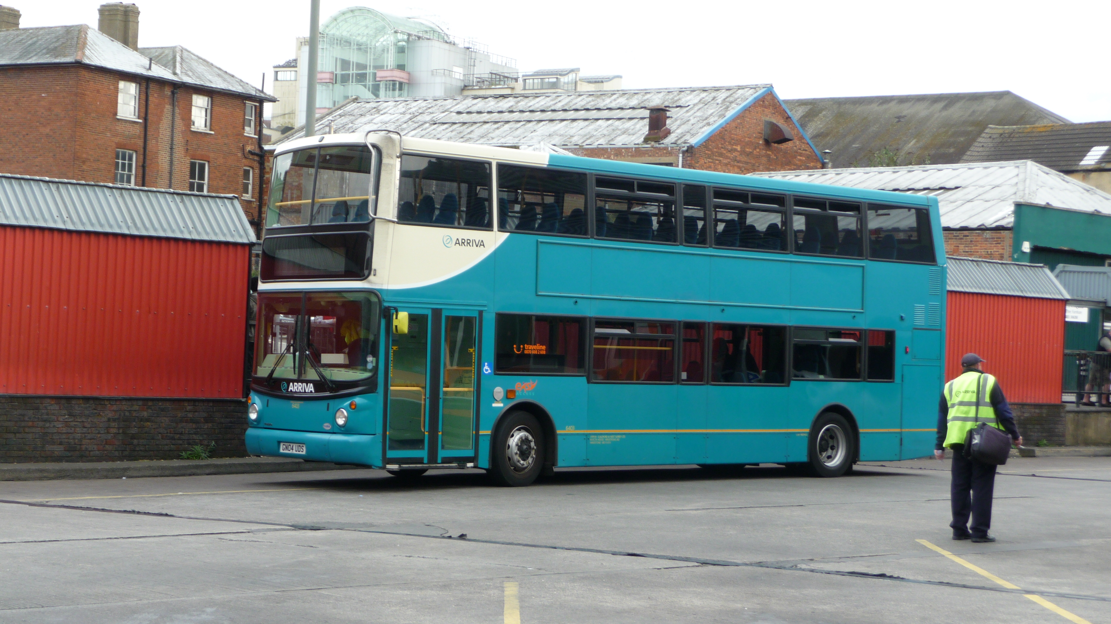 Arriva Guildford & West Surrey 6403 (GN04 UDS), a Volvo B7TL/TransBus ALX400, in Guildford Friary bus station, Guildford, Surrey, laying over out of service. Two B7TLs, 6402 and 6403, arrived at Guildford at the end of August 2009, to displace the step entrance Dennis Dominators (5214 and 5215). While 6402 was almost immediately sent for repaint, and had returned with a new paint of coat at the time of this photo, 6403 had yet to visit the paint shop. 6402 and 6403 were new to Gillingham depot - in the Arriva Medway Towns part of Arriva Southern Counties - in 2004, as part of "Operation Overdrive", where a large batch of buses were purchased to upgrade the fleet in one go.